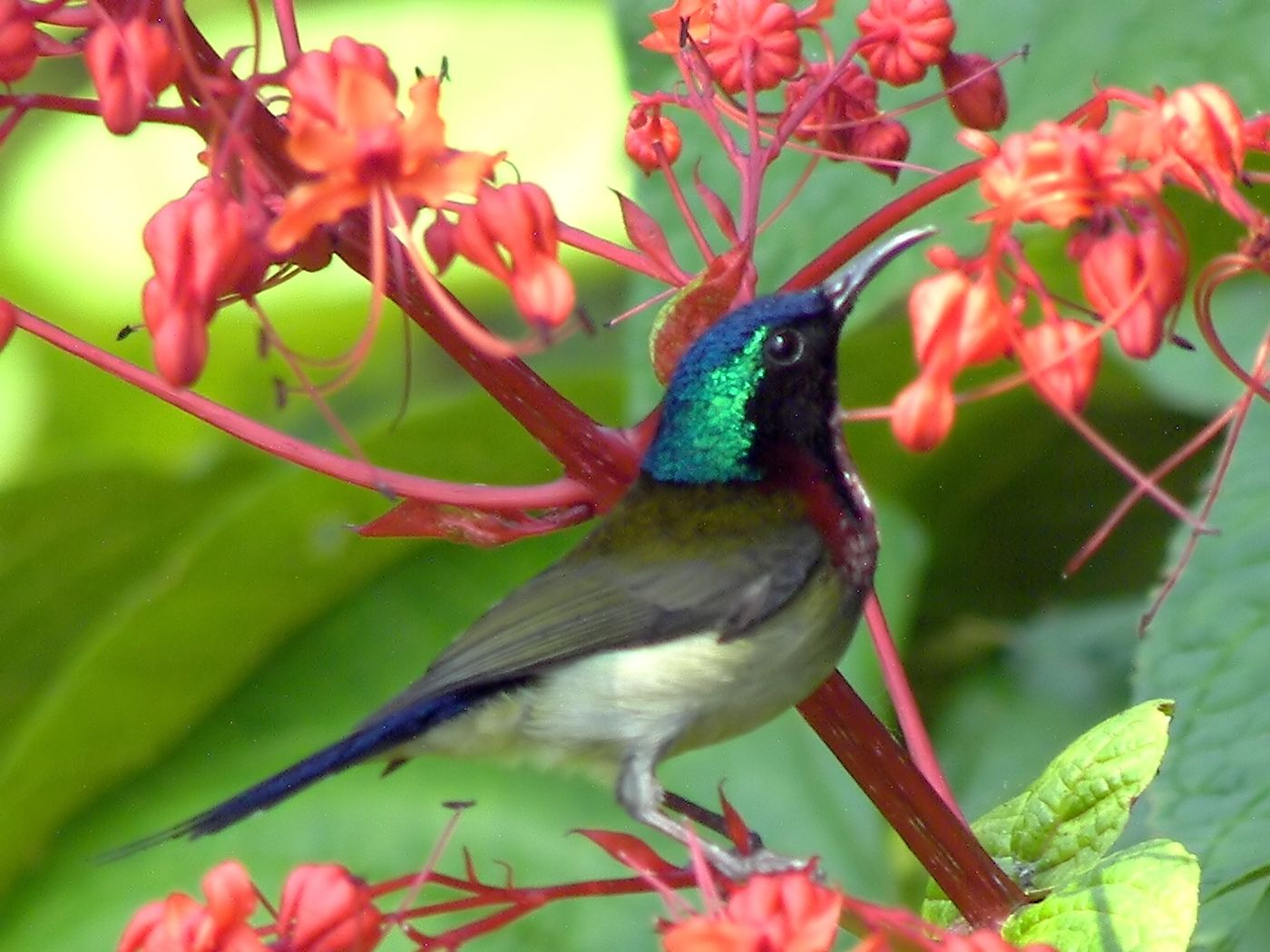 Fork-tailed Sunbird, Aethopyga christinae - male Original description: Saw at hill side